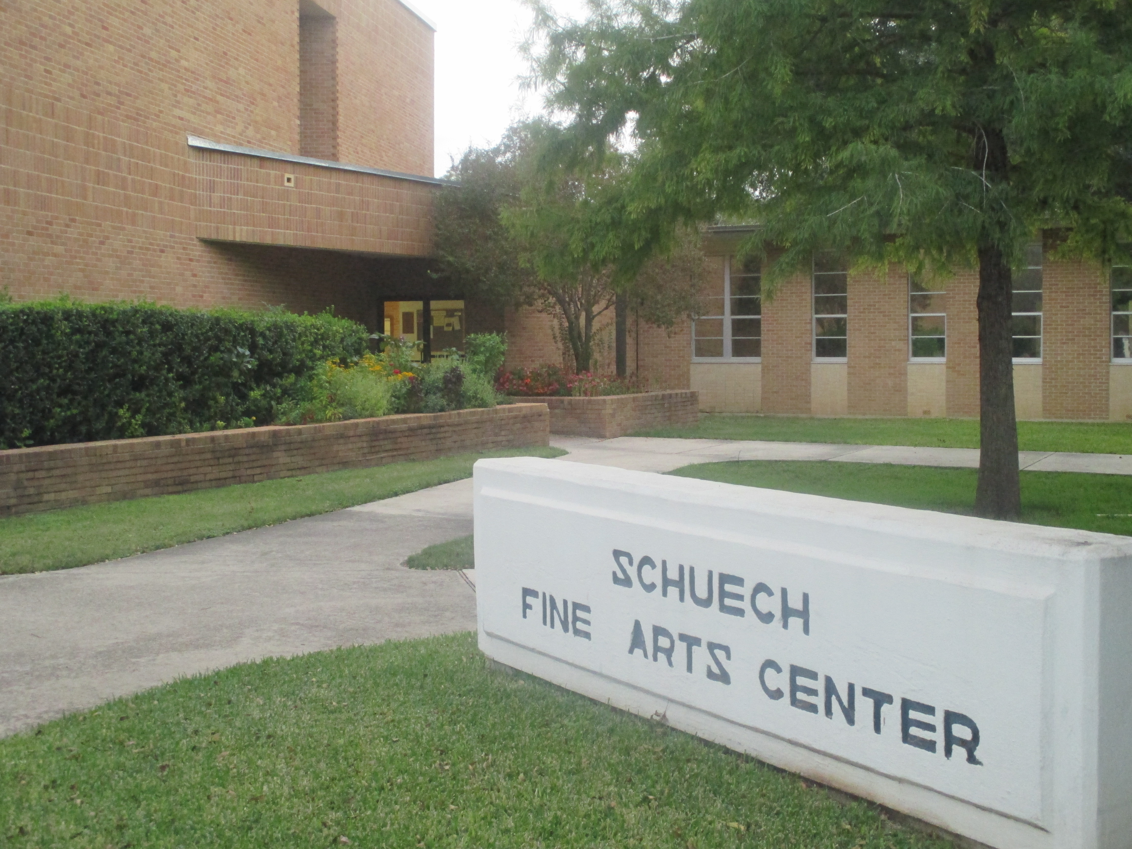 I took photo with Canon camera of Schuech Fine Arts Center at Texas Lutheran University in Seguin.